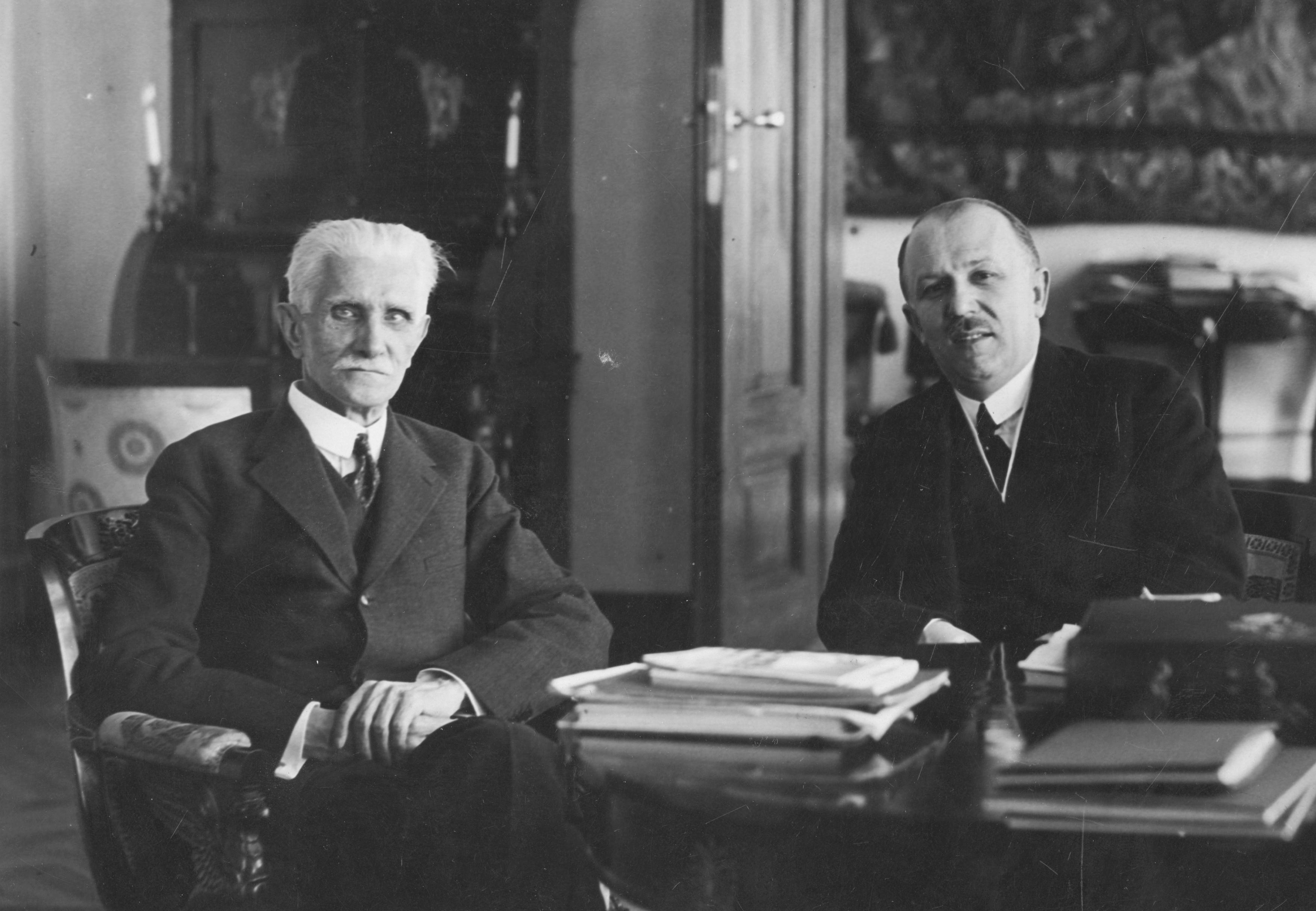 Polish Sejm's speaker Ignacy Daszyński and prime minister Kazimierz Bartel.